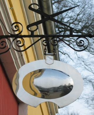 Signboard of barber's shop (Aagards Herresalon) in Hareskovby, Furesø Kommune, Denmark